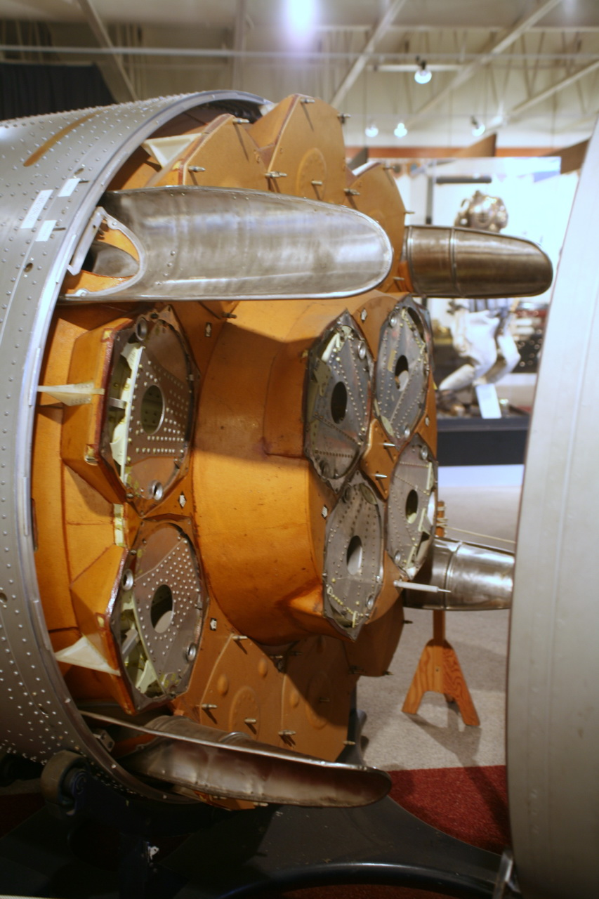 The Poseidon missile program, with an estimated production cost of $2 billion, was announced by President Lyndon B. Johnson on January 18, 1965. Despite the new missile’s connection to the Polaris missiles, Johnson chose to give it the new name "Poseidon," named after the Greek mythological god of the sea.See also: UGM-73 Poseidon